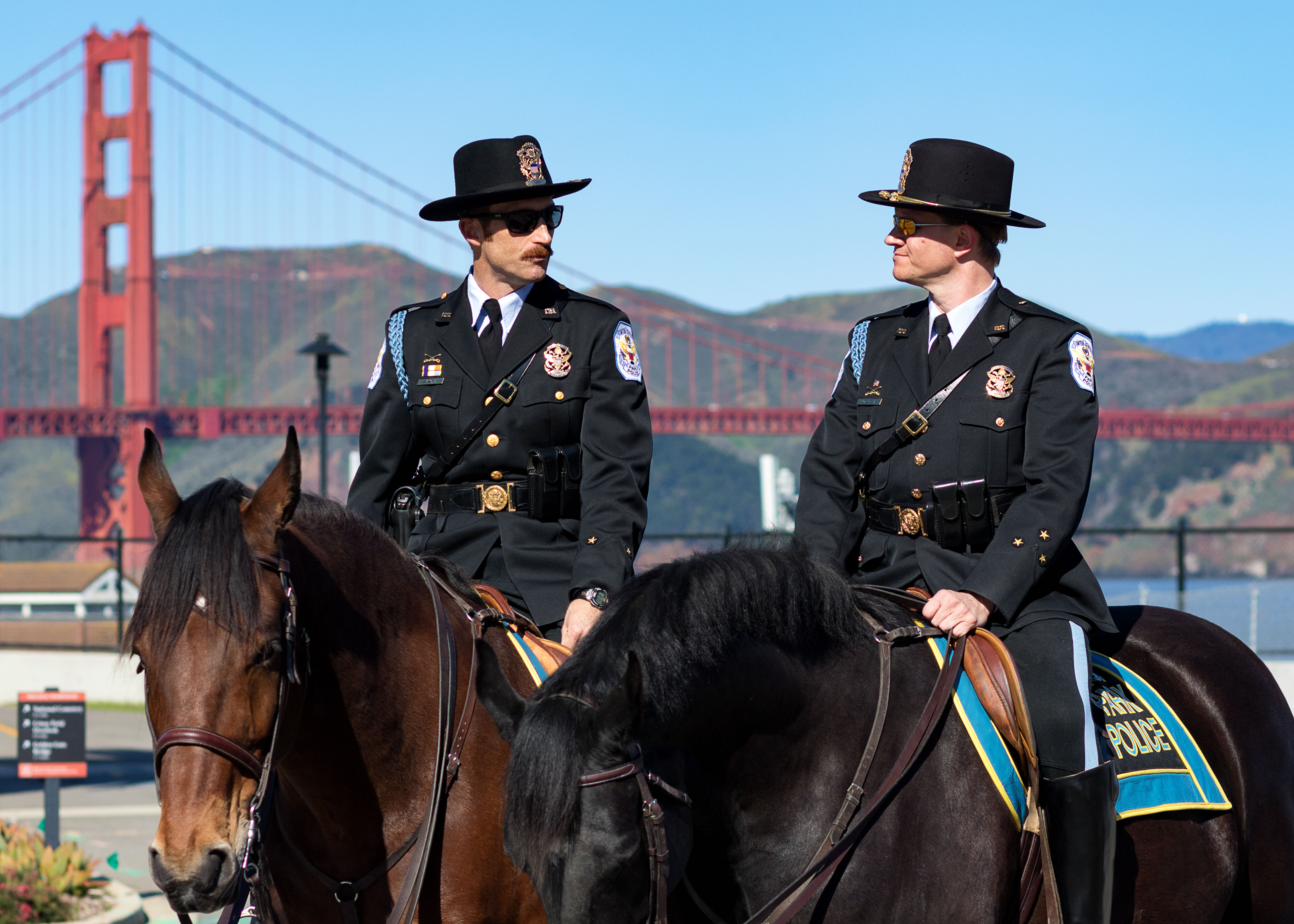 Two members of Park Police Horse Mounted Unit provide security during the ribbon-cutting ceremony of the new Presidio Visitor Center on February 23rd, 2017.